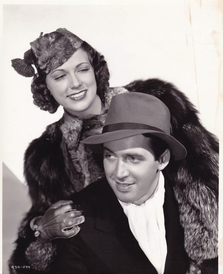 James Stewart and Eleanor Powell in Born to Dance, 1936. Ted Allan stamp on rear of photo